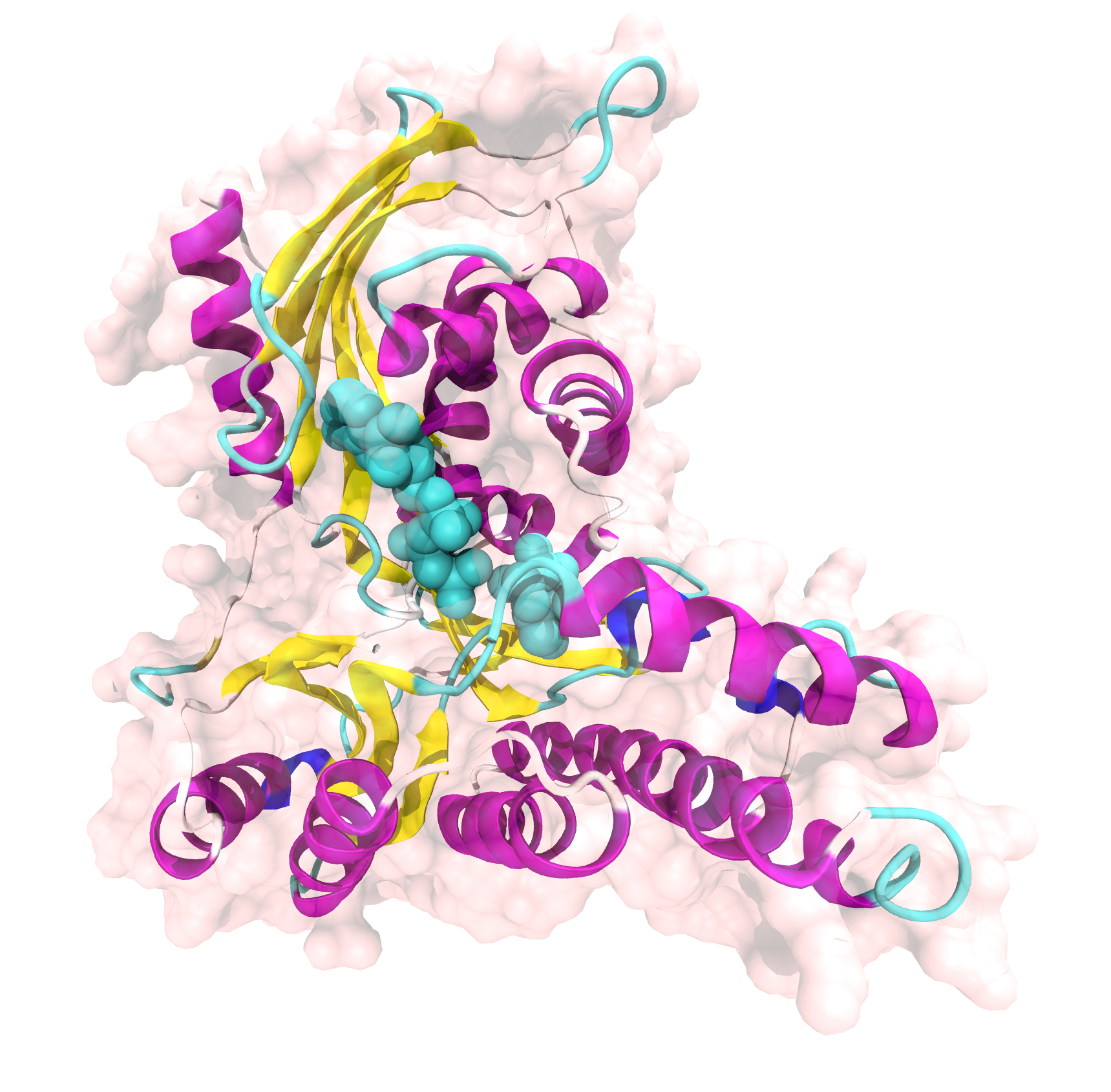 surface/ribbon model of galactokinase 1 with substrates as balls, after 1WUU. Ref.: Thoden JB, Timson DJ, Reece RJ, Holden HM (March 2005). "Molecular structure of human galactokinase: implications for type II galactosemia". J. Biol. Chem. 280 (10): 9662–70. PMID 15590630. This 3D molecular image was created with VMD